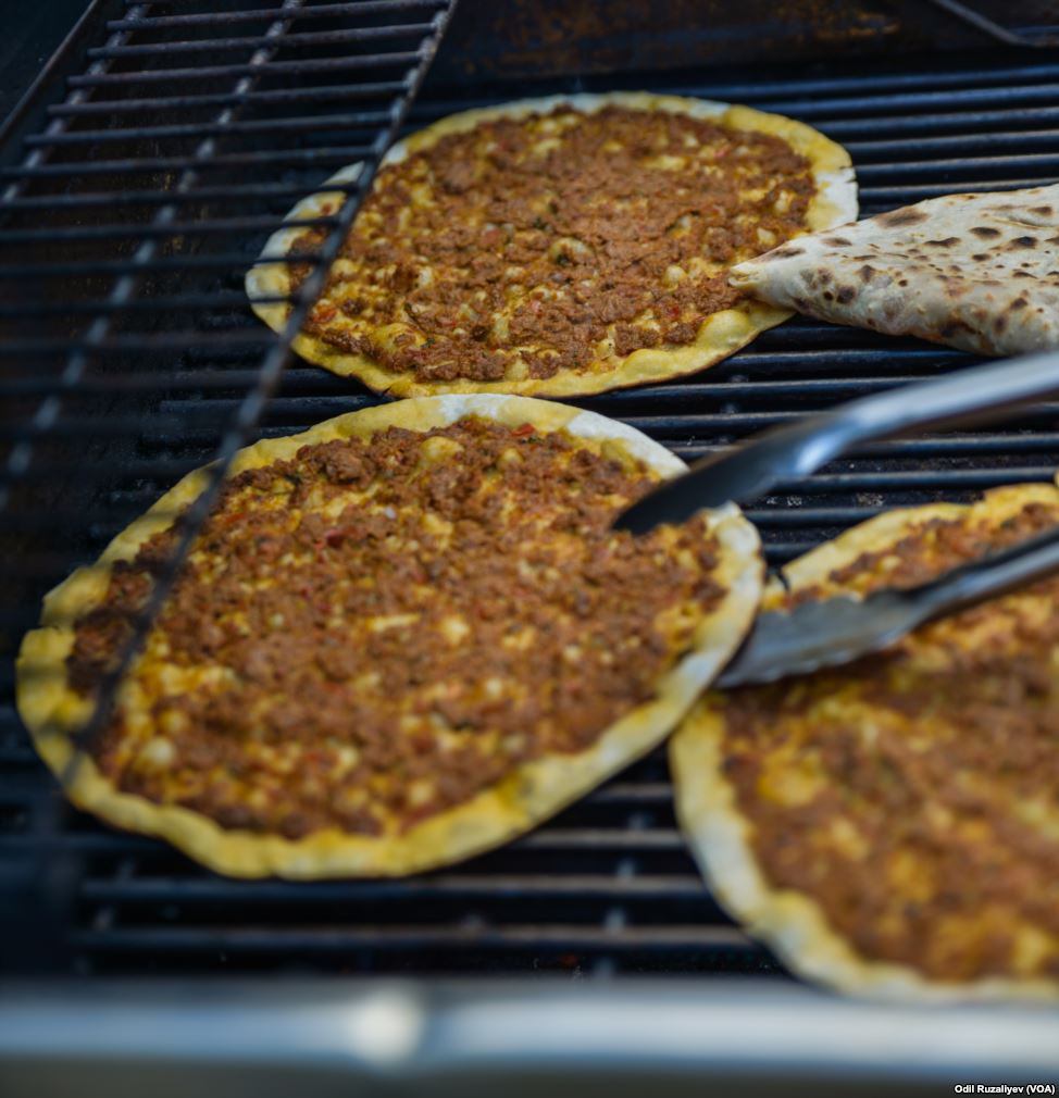 Turkish Lahmacun.